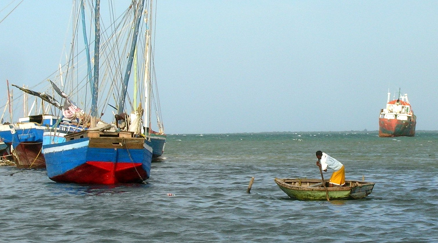 A small boat being moved by pole in Cap-Haitien harbour, Haiti.